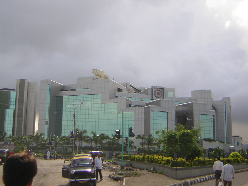 National Stock Exchange of India